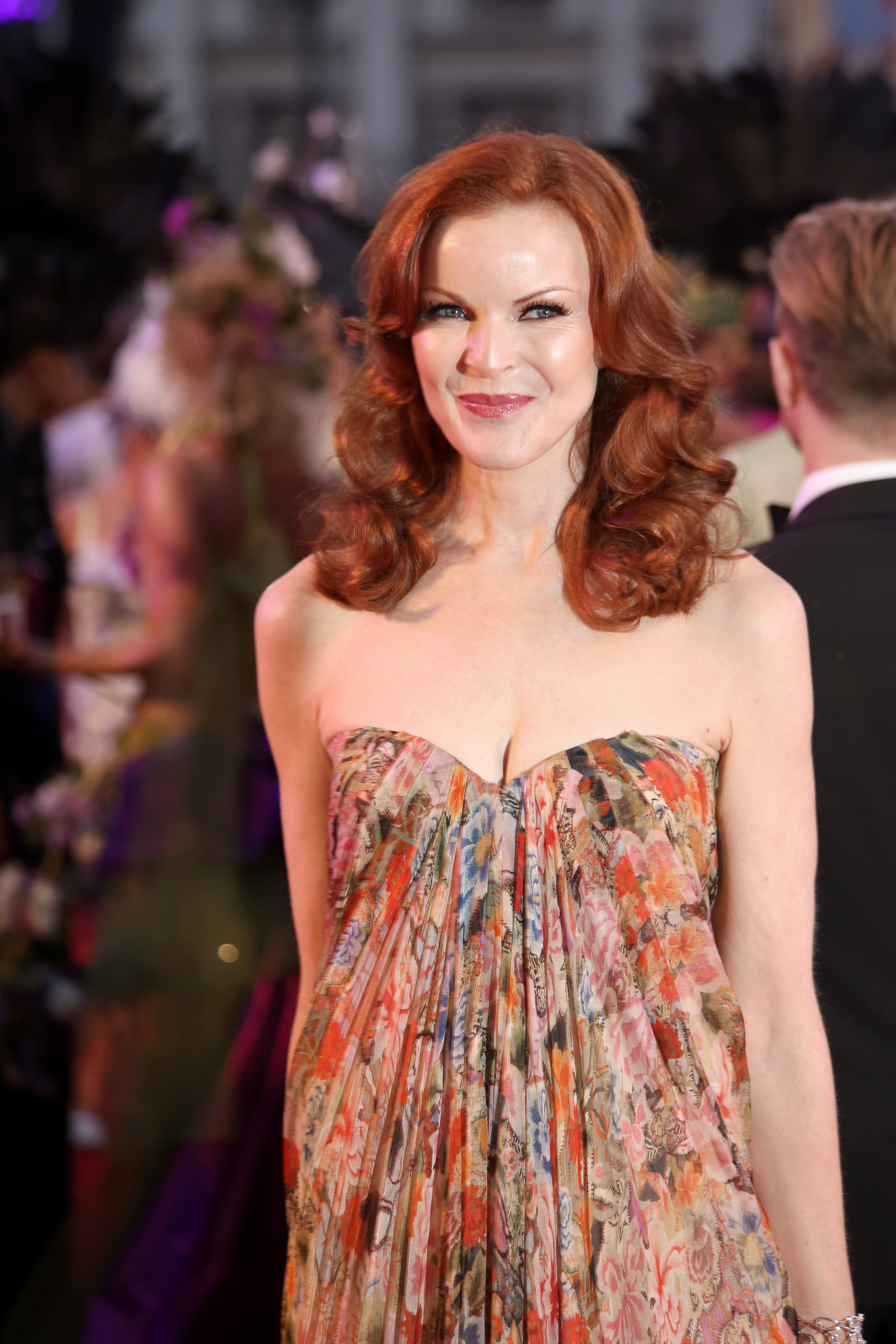 Life Ball 2014: Marcia Cross on the red carpet on the square in front of the Rathaus (Town Hall) of Vienna, Austria.